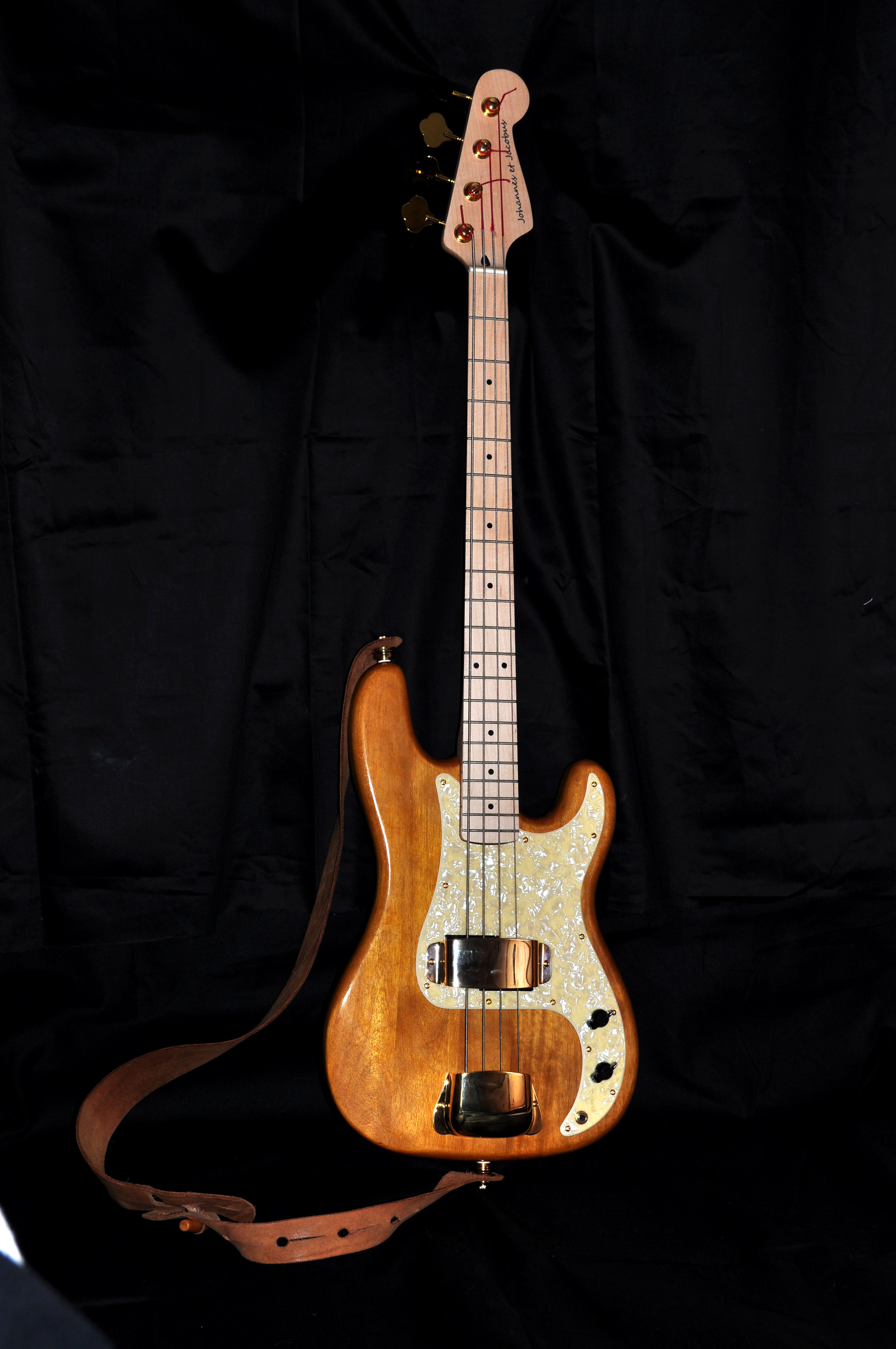 Johannes et Jacobus "Le Roi du Soleil" Precision Style Bass (JJ004) from Flickr album "200907 My Guitars" by John Clift "My current collection of guitars - five of them are self-built"